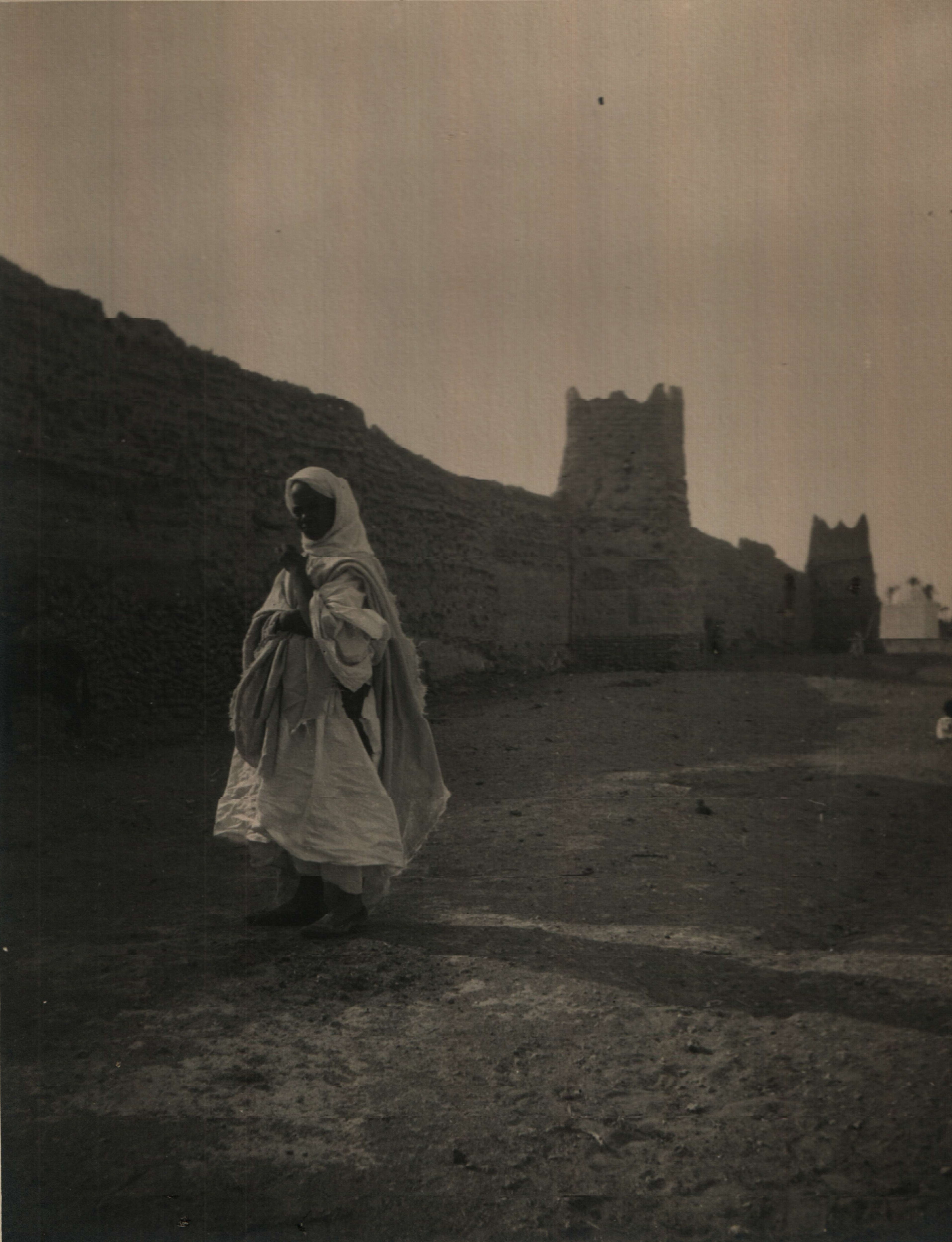 Views and photos of the Sahara desert and other regions in Africa. Newspaper wall in Béchar, Algeria.